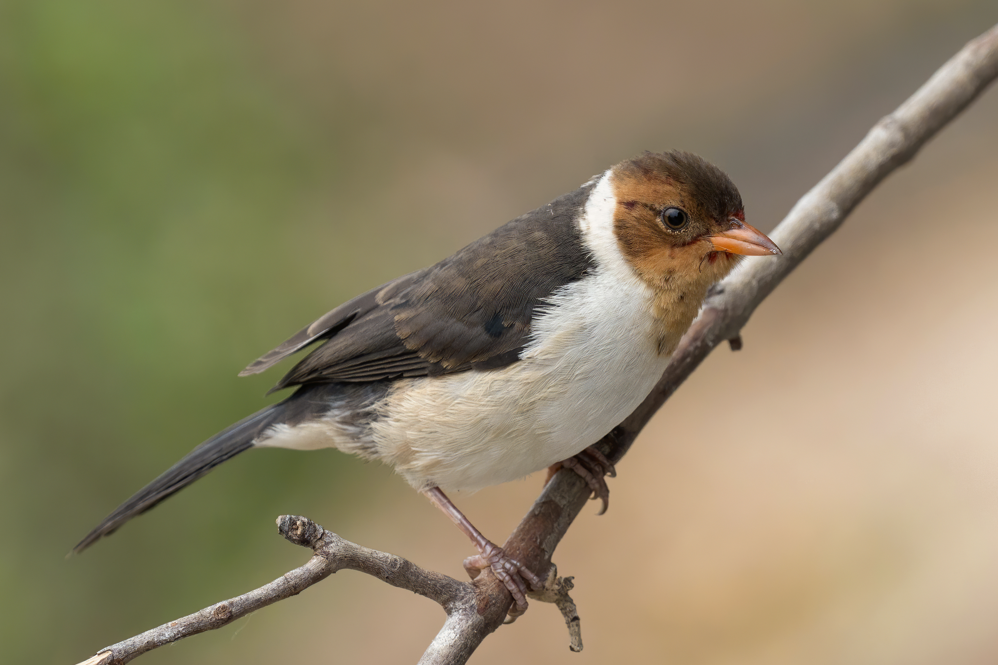 Yellow-billed cardinal (Paroaria capitata) juvenile, the Pantanal, Brazil